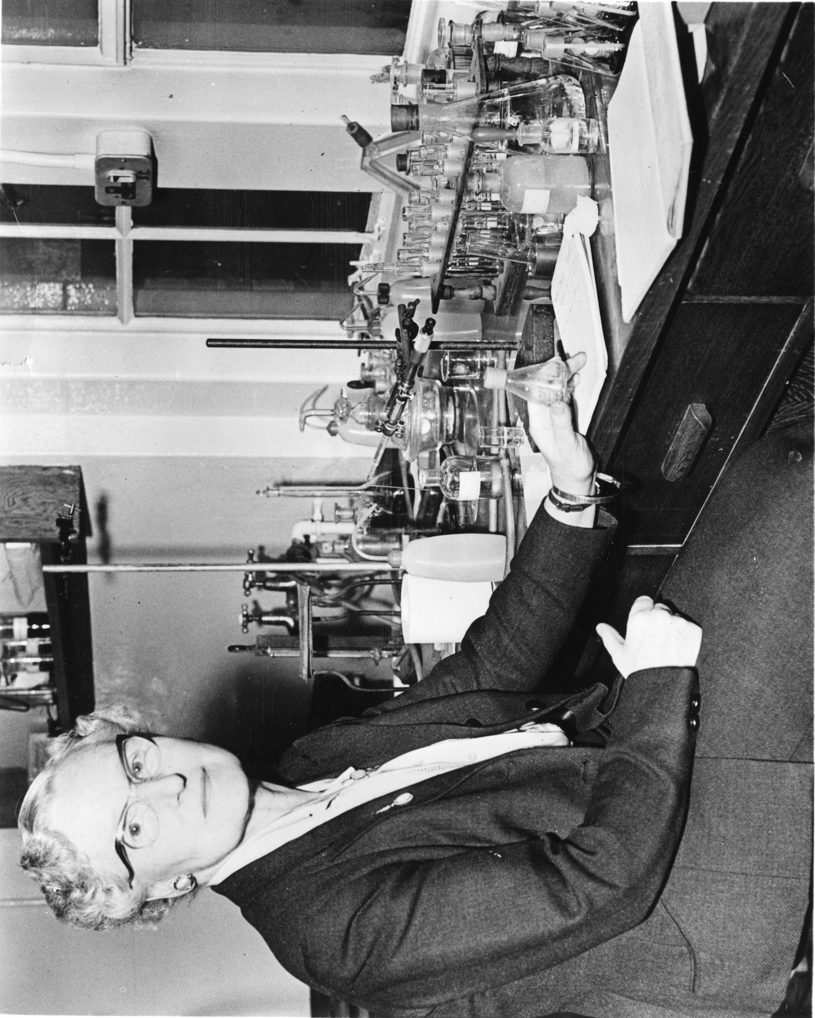 Acc 90-105, Box 17, Folder Portraits PP - PRD; In lab. From caption: "First of Her Kind. Dr. Helen K. Porter has become the first woman to hold a chair - that of Plant Physiology - at Britain's Imperial College of Science and Technology. A Fellow of Britain's distinguished Royal Society since 1956, the twelfth woman to receive such a fellowship in the society's 300 years, Dr. Porter spent a year in the United States just after World War II studying enzymological methods at Washington University, St. Louis, Missouri. Born in 1899, she first became associated with the Imperial College in 1921. Picture Shows: Dr. Helen K. Porter in a laboratory of the Imperial College of Science and Technology."